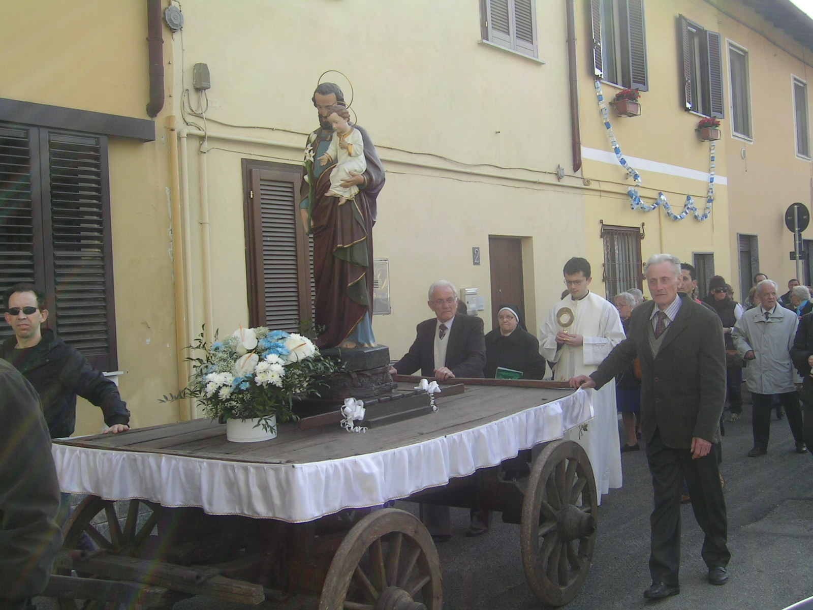 Saint Joseph's Processional in Castellazzo de' Stampi, Corbetta (MI) - Italy